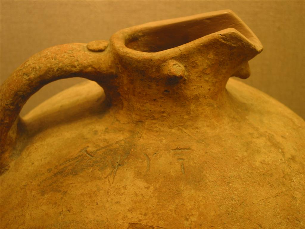 Linear A on a vase from Acrotiri in Santorini. Taken by Portum. Afbeelding:Linear A vaas.jpg